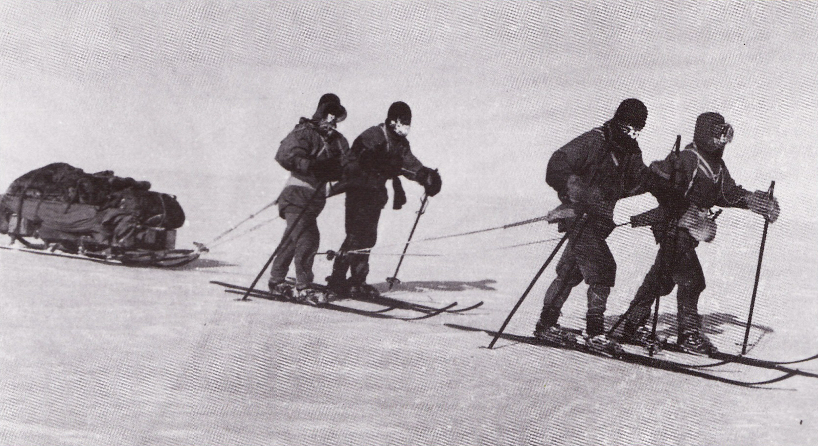 The South Pole team hauling their sleds full of supplies on the way back to the base camp at the Cape Evans.